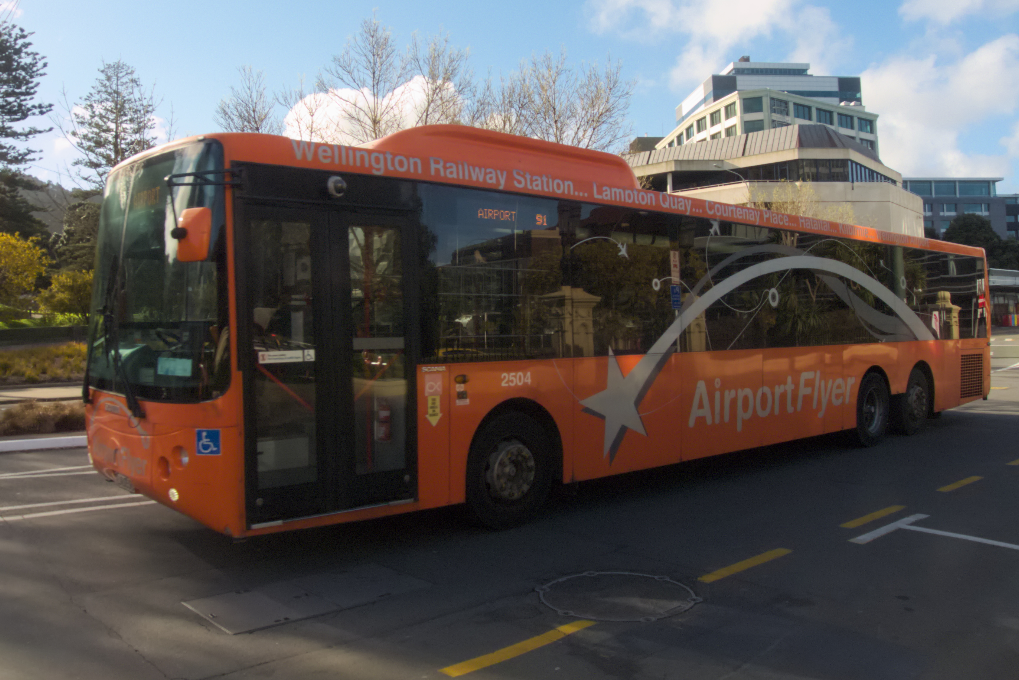 The Airport Flyer bus is operated by NZ Bus, and travels between Queensgate, Lower Hutt and Wellington International Airport.